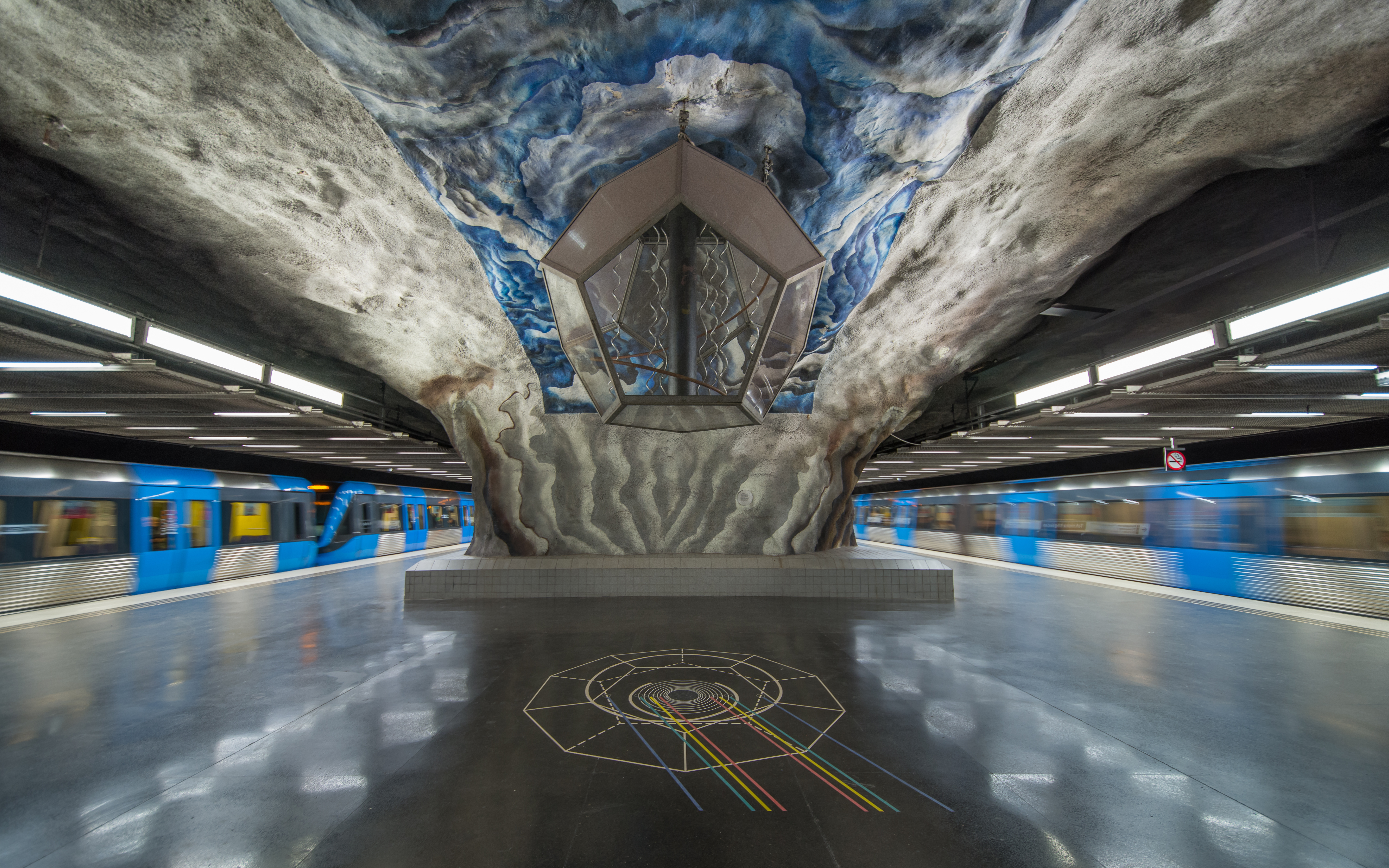 Tekniska högskolans metro station, Stockholm.